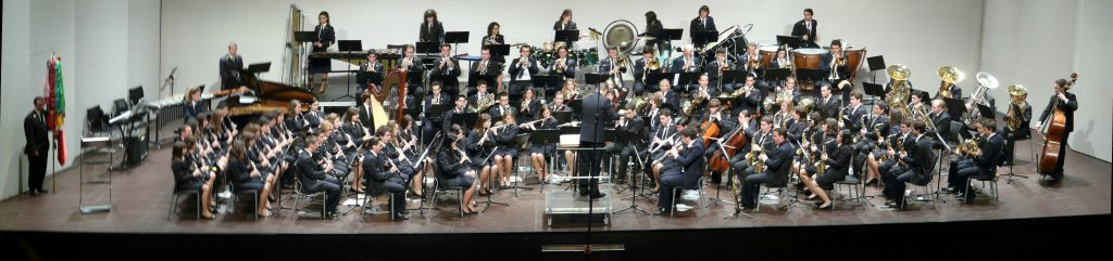 The music band AMJCT in International Wind Bands Music Contest "Ciudad de Torrevieja" 09'. She won 1st Prize.